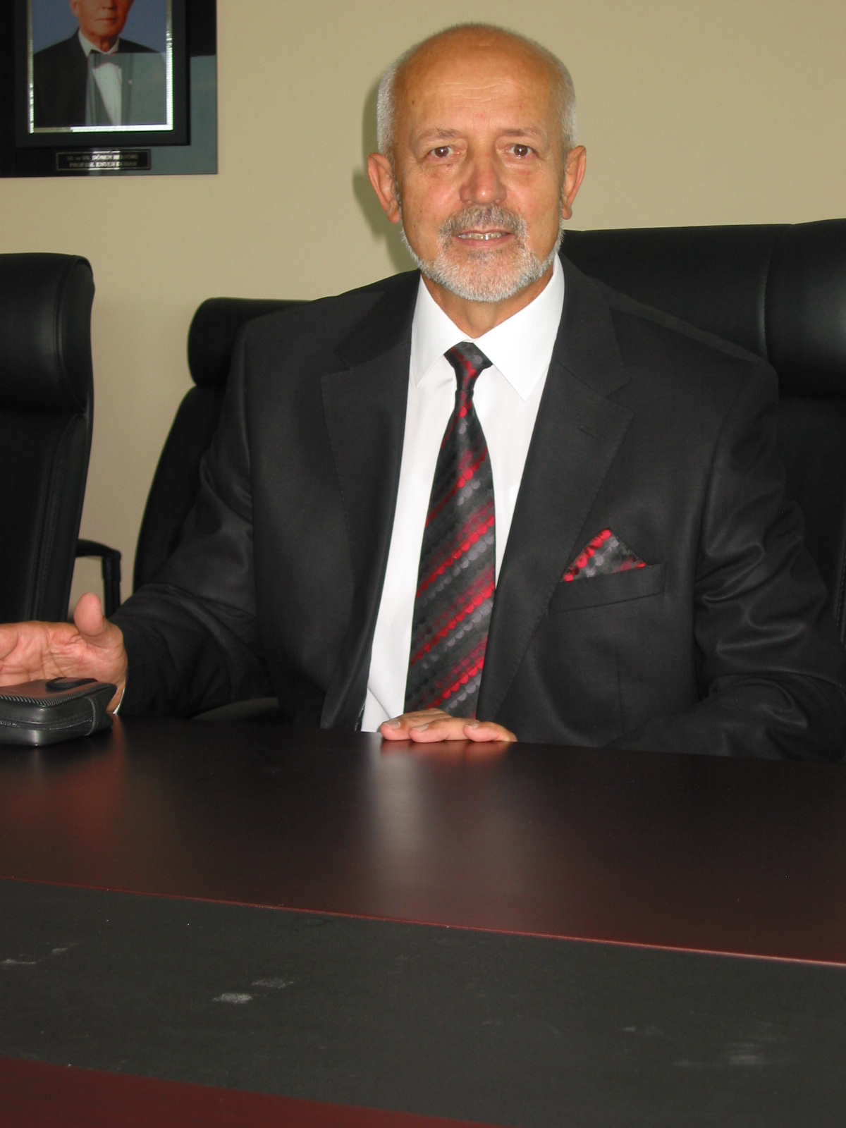 Faruk Čaklovica, Professor, Rector University of Sarajevo 2006-2012